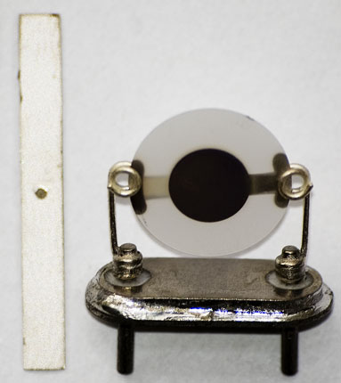 Polish quartz crystal resonator from a crystal oscillator with case removed, showing construction. It consists of a round transparent plate of quartz, with metal foil electrodes plated onto both surfaces attached to terminals on the bottom. When connected to an electronic oscillator circuit, the quartz plate vibrates mechanically millions of times per second, creating an oscillating electrical signal in the circuit.